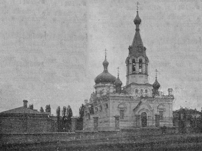 Екатеринославъ. Храмы/ Начала 20 века.